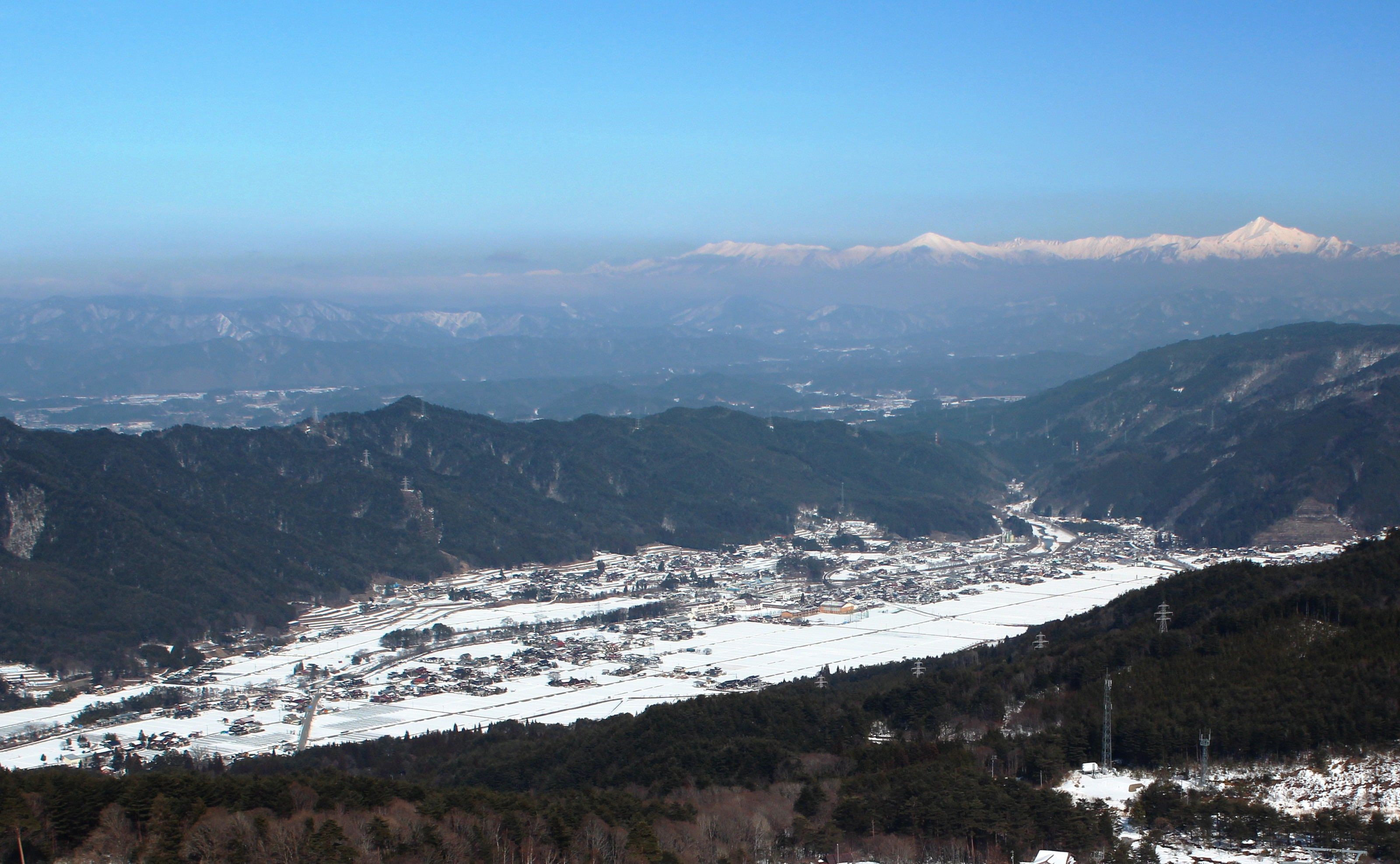 Miya,Takayama, Gifu, Japan from Mount Kurai